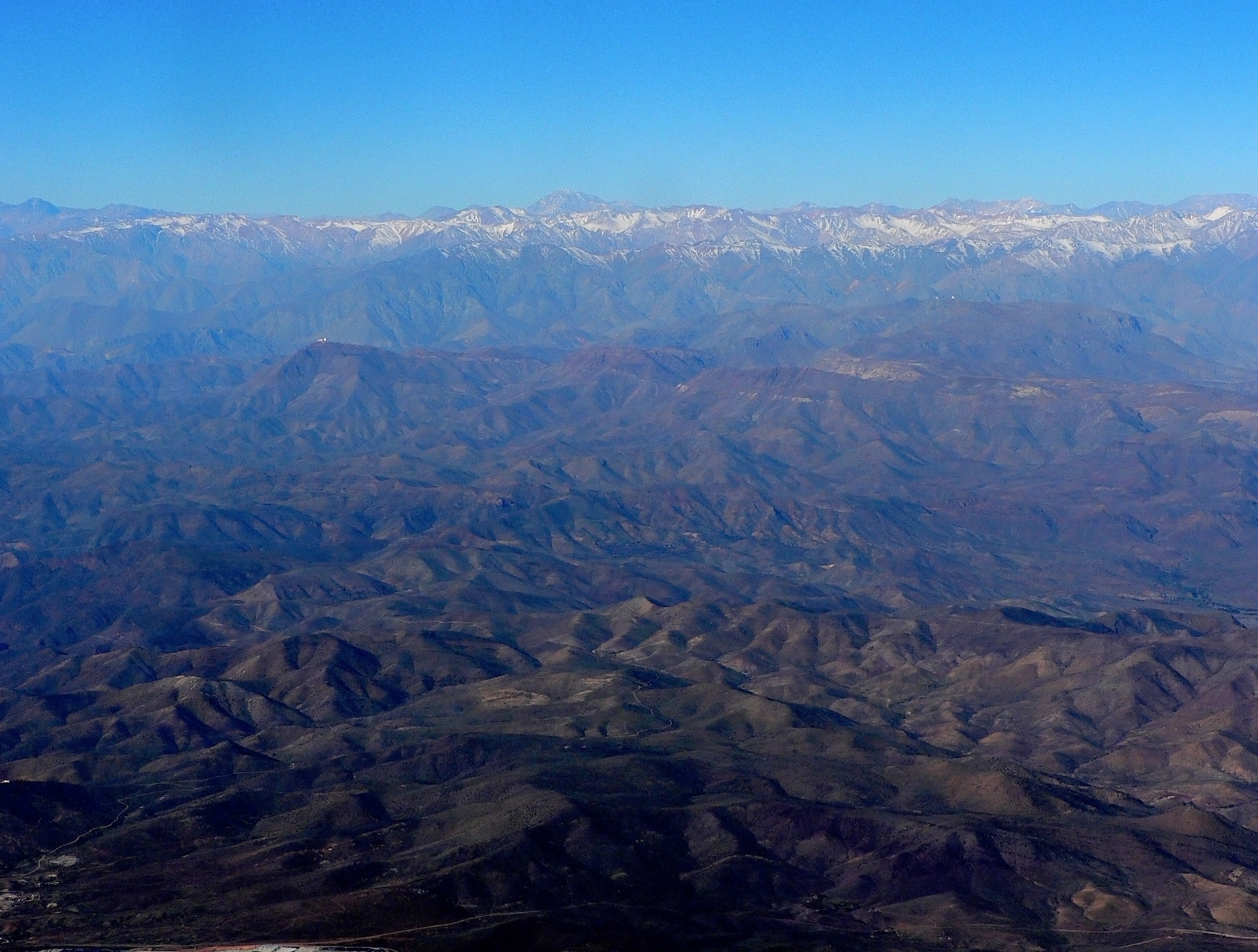 Picture of the Andes Mountains with Cerro Las Tortolas in the middle, as the highest peak. Taken from LAN Chile flight from La Serena to Santiago. Cerro Tololo and Cerro Pachon observatories are in the foreground.